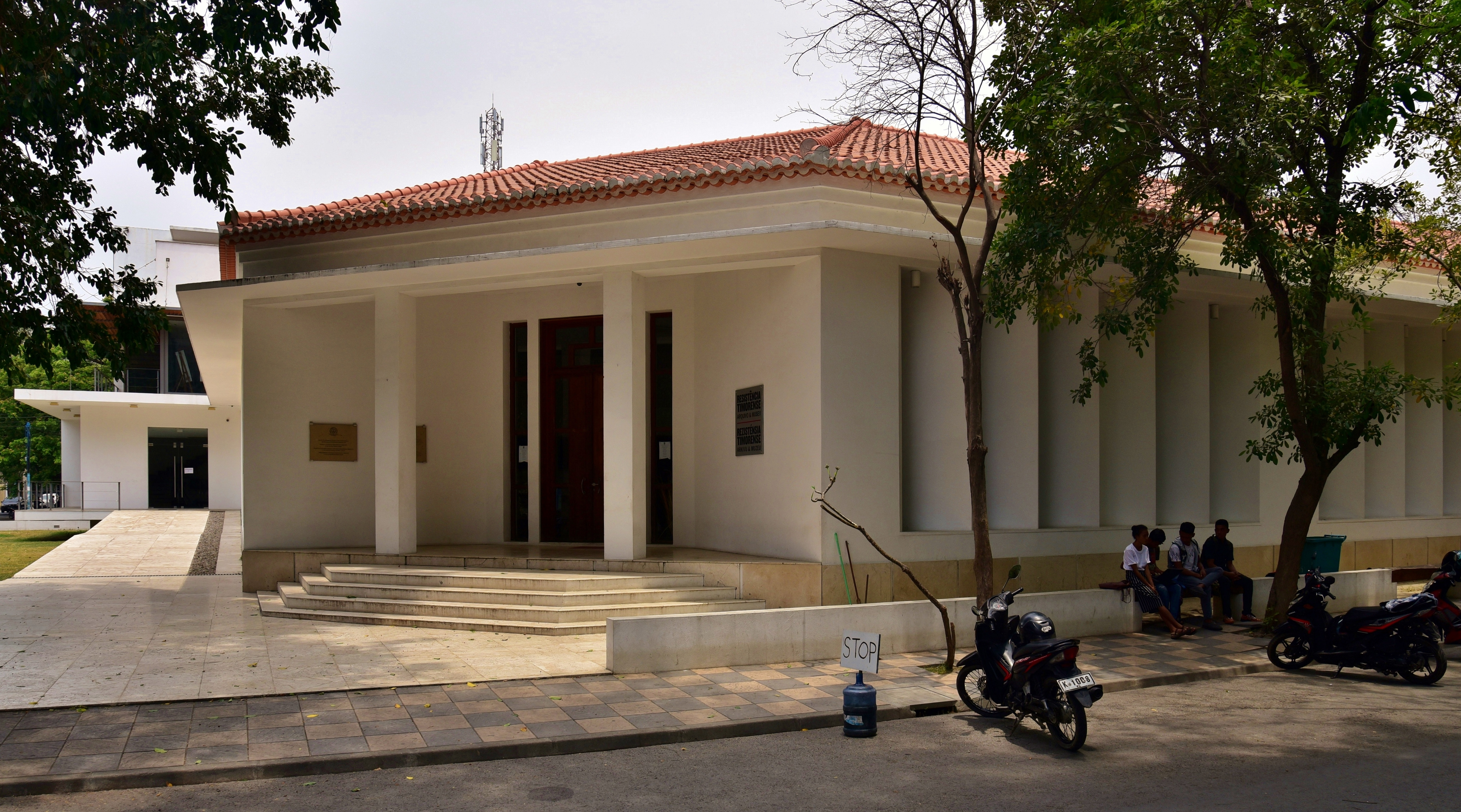 View of the entrance to the Arquivo & Museu da Resistência Timorense, Dili, East Timor